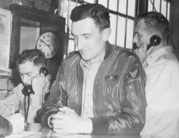 Lt Col (later Brigadier General) Staryl C. Austin, Jr, commander of the 142nd Fighter-Interceptor Wing of the Oregon Air National Guard, at operations center during exercise at Gowen Field, Idaho on 18 June 1954.